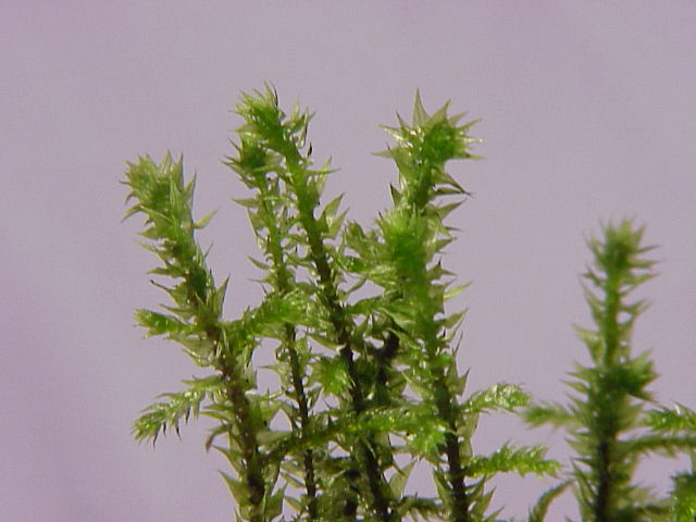 Species: Rhytidiadelphus triquetrus Family: ' Image No. 1